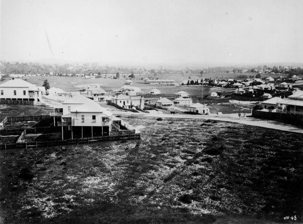 Houses of New Farm, Brisbane, 1880-1890. This view takes in houses and properties of New Farm, Brisbane. Photograph taken by the N.S.W. Photo Co., Petrie Terrace, Brisbane.